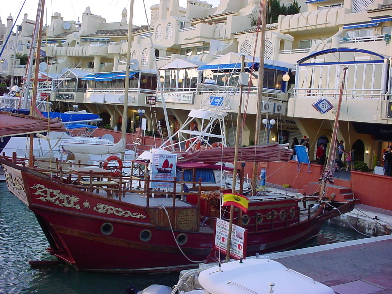 Chinese junk built in Hong Kong in 1972, in the harbour of Puerto Marina in Benalmádena, South Spain. It brings tourists on 1-hour cruises along the coast.